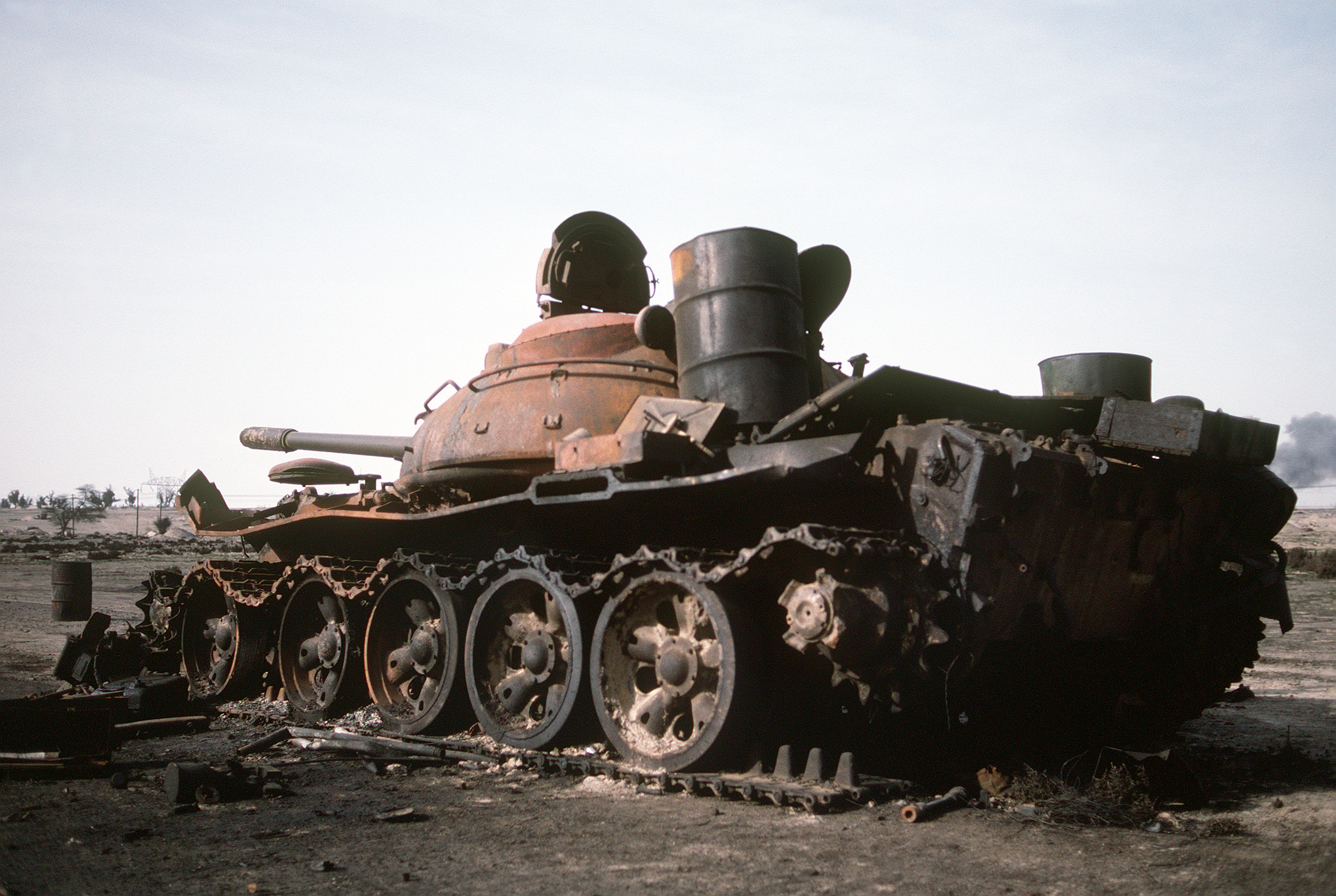 A burned-out Iraqi T-55A main battle tank lies abandoned at the edge of an oil field following Operation Desert Storm.